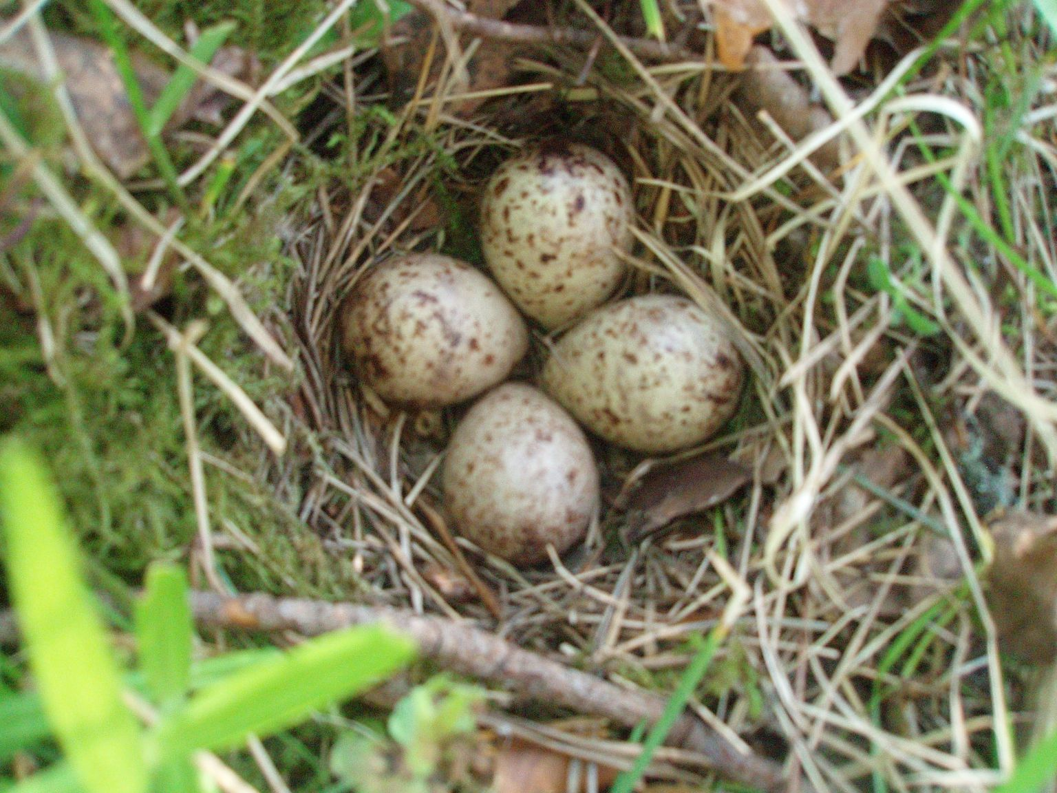 The nest of a sandpiper with its spreckled eggs. The sandpipers usually don't make a fuss about hiding their nest, but trust their camouflage.